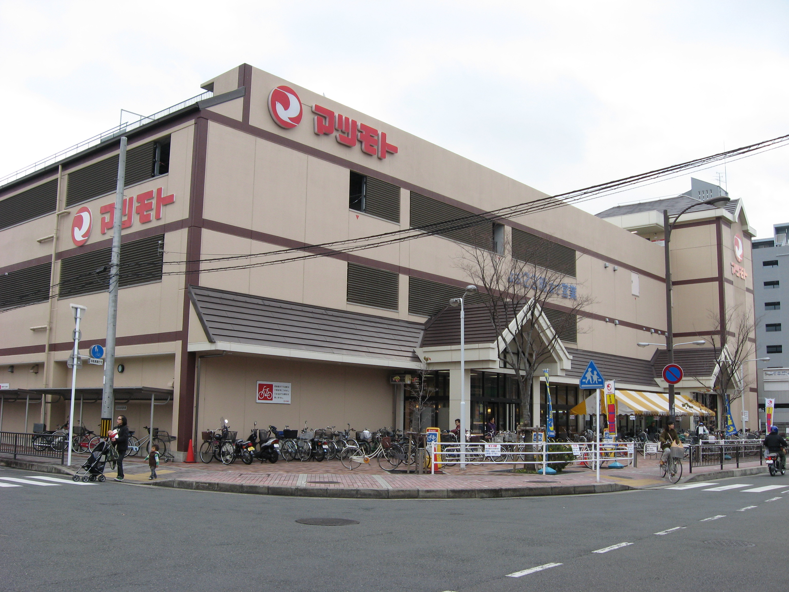 Kyoto Matsumoto Supermarket (Gojo Shop)